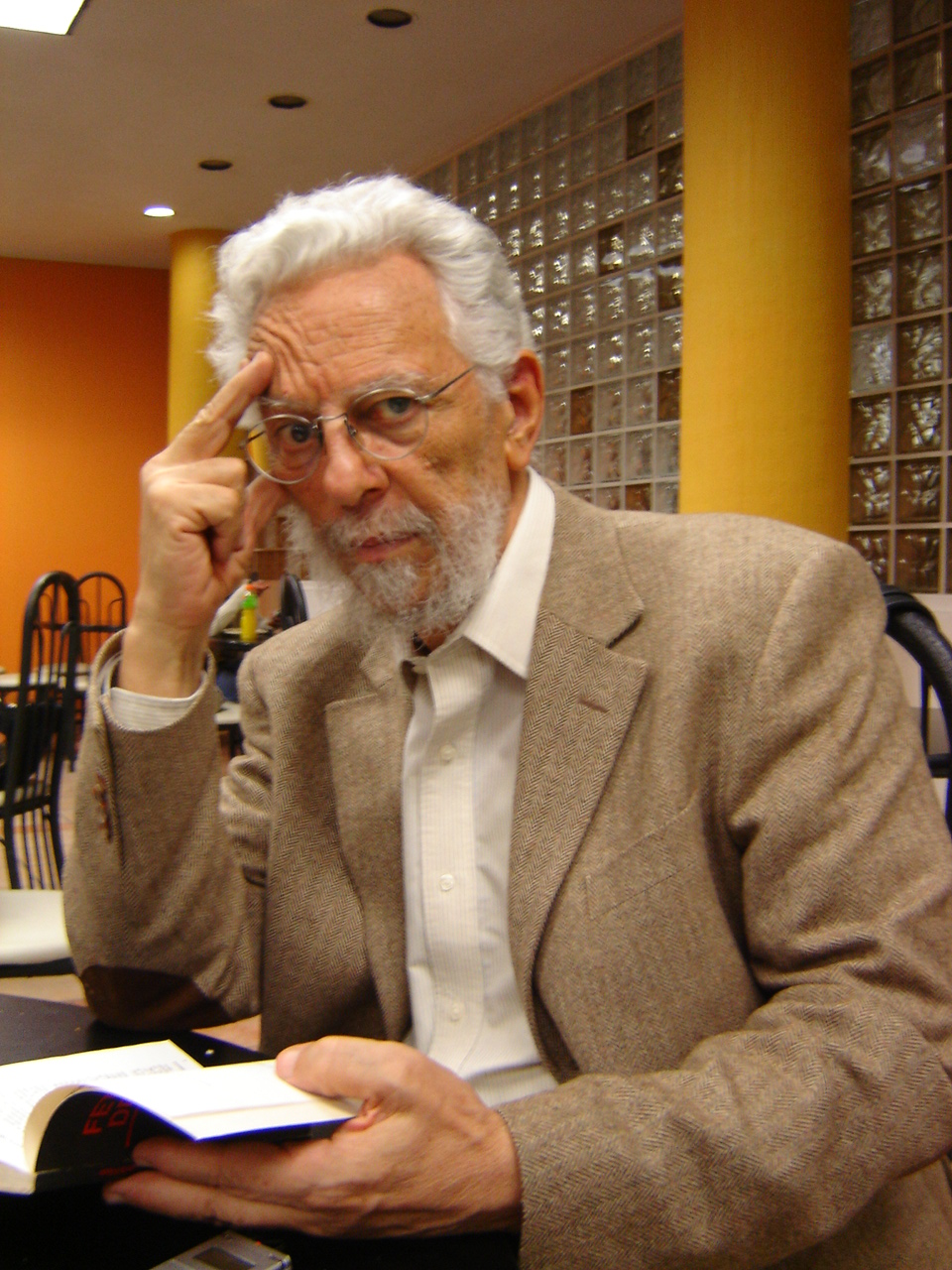 Photo of the philosopher Enrique Dussel Personality rights warningAlthough this work is freely licensed or in the public domain, the person(s) shown may have rights that legally restrict certain re-uses unless those depicted consent to such uses. In these cases, a model release or other evidence of consent could protect you from infringement claims.